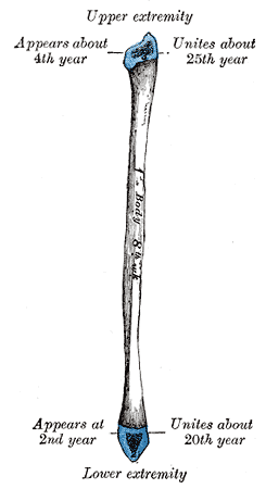 Plan of the development of the fibula by three centres.